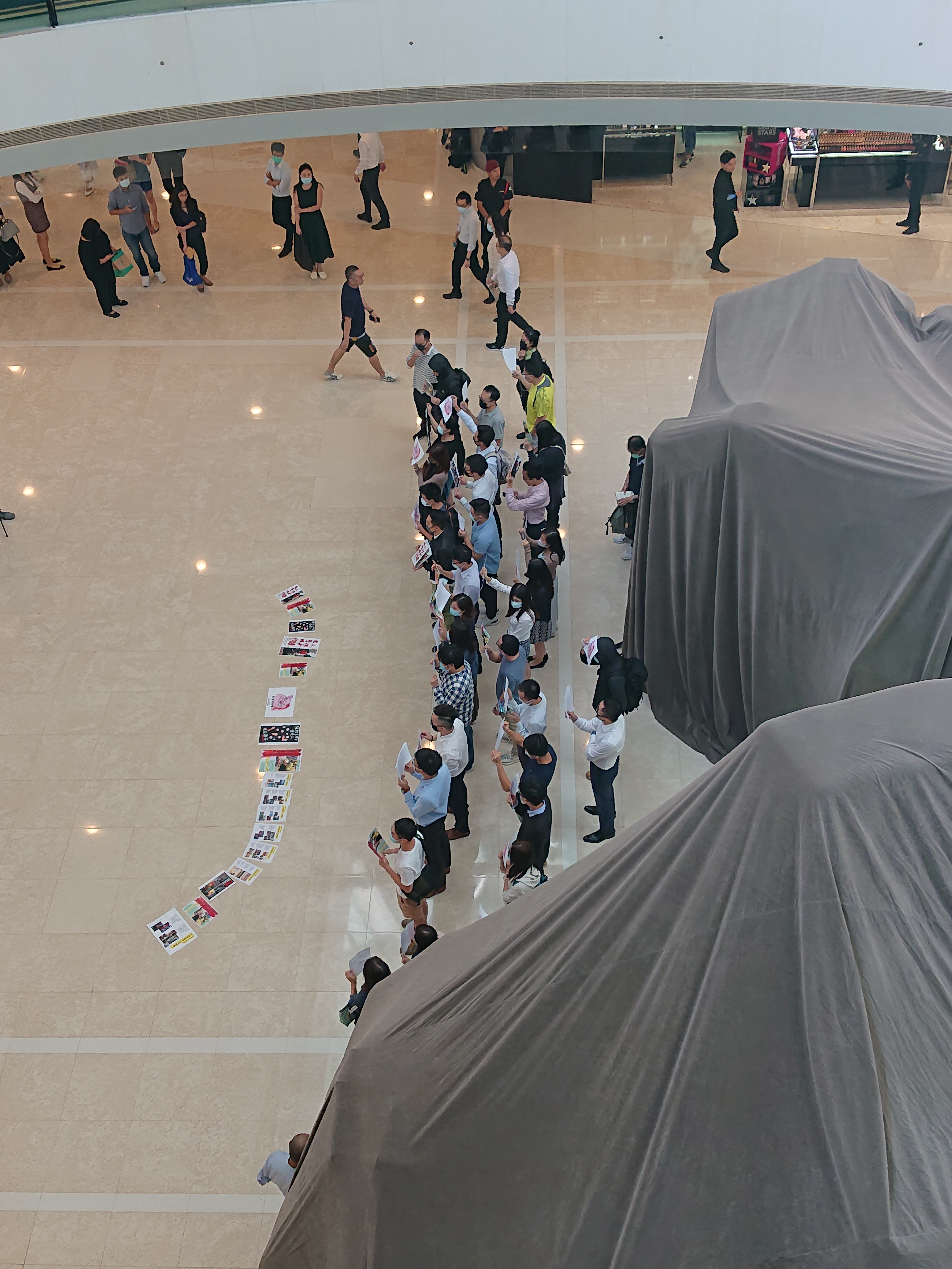 2019-11-04 Lunch Protest in IFC Mall